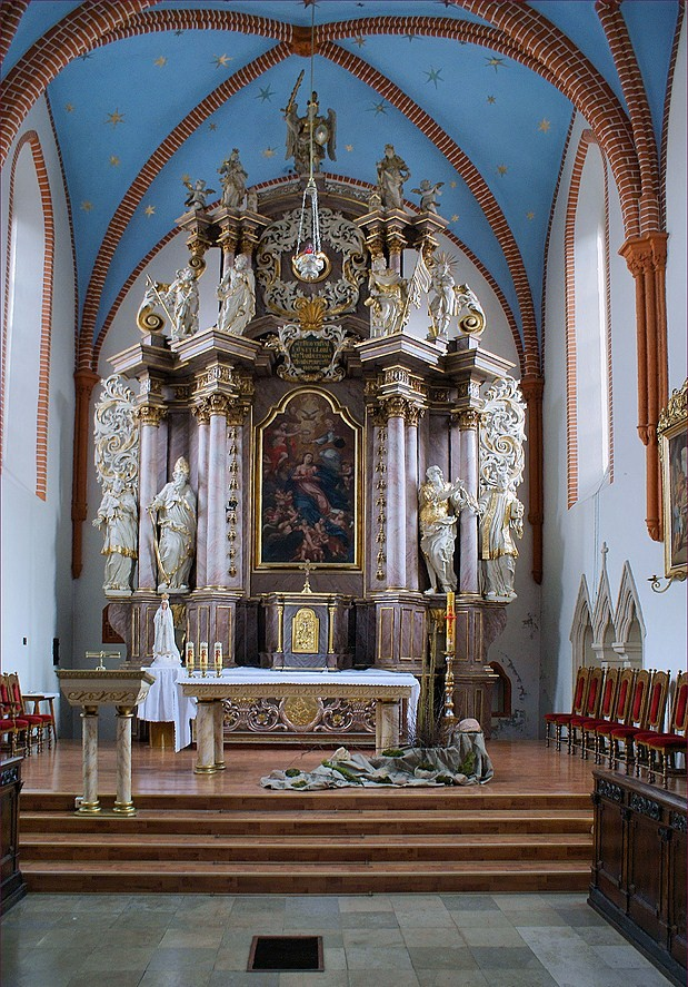 Grodkow